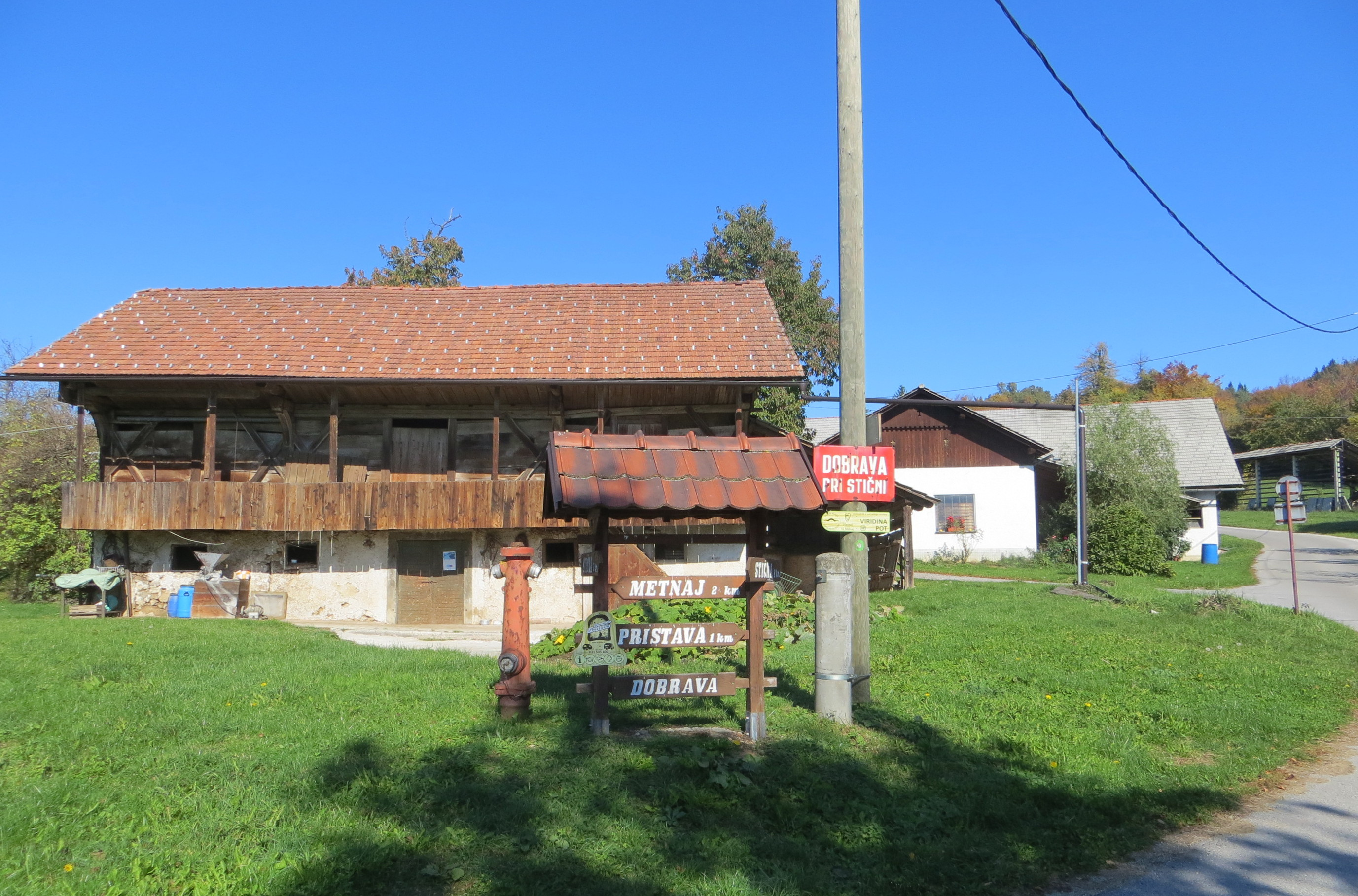 Dobrava pri Stični, Municipality of Ivančna Gorica, Slovenia